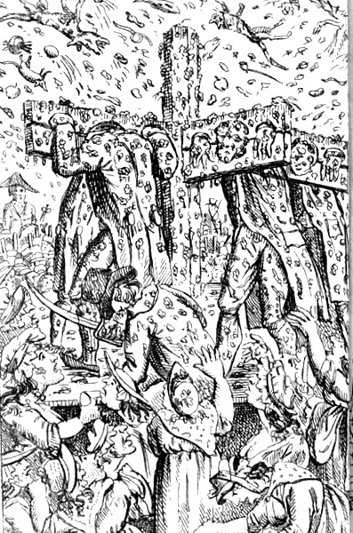 The Vere Street Gang at the pillory in 1810. Contemporary print.